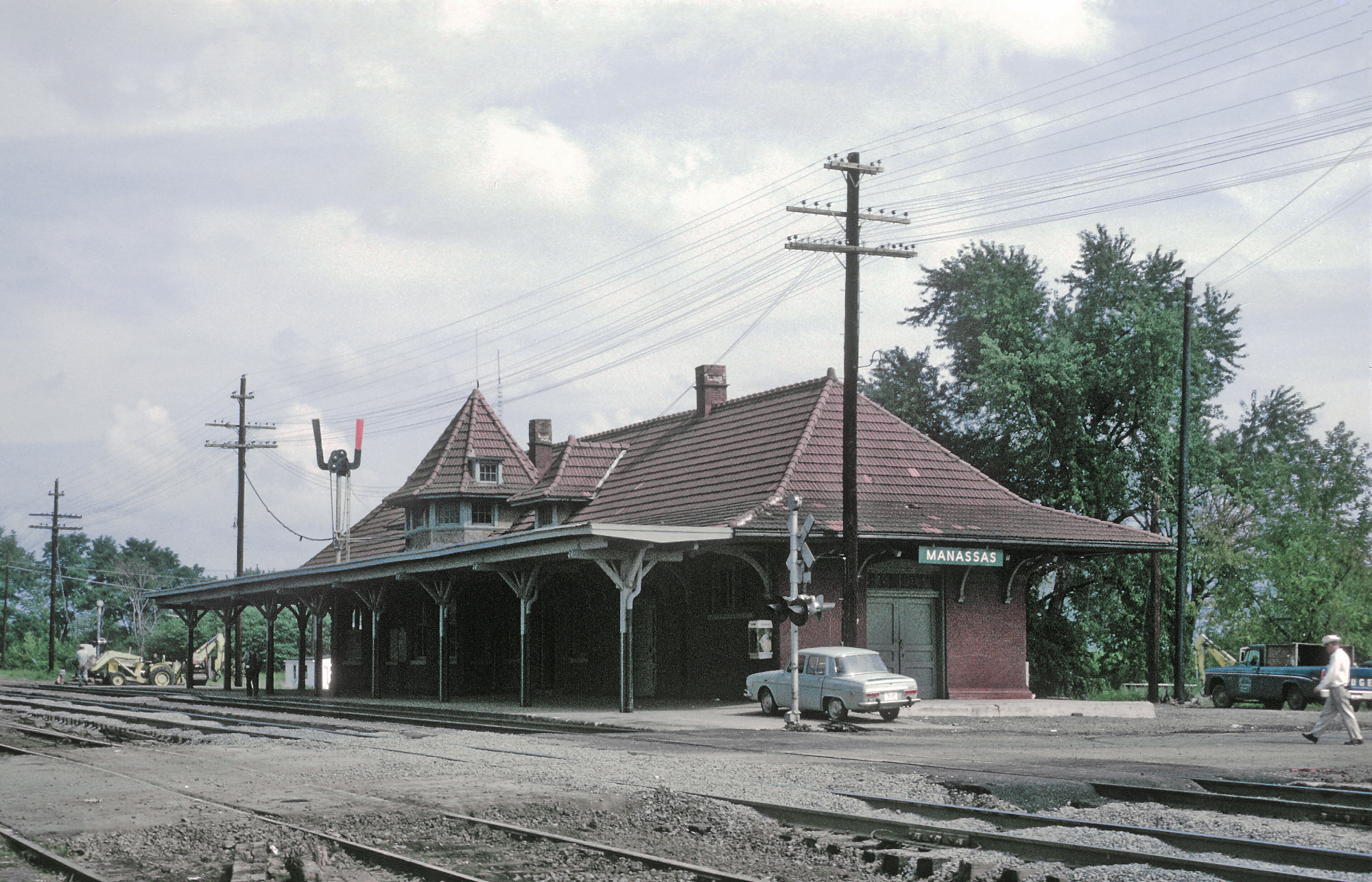 SOU station at Manassas, VA on September 6, 1969.